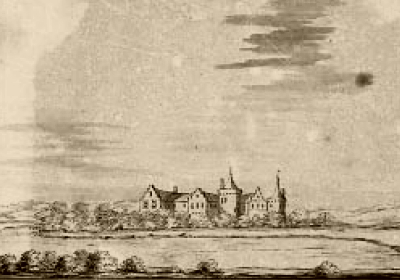 t Ravenhorst at the Slink by Breevoort